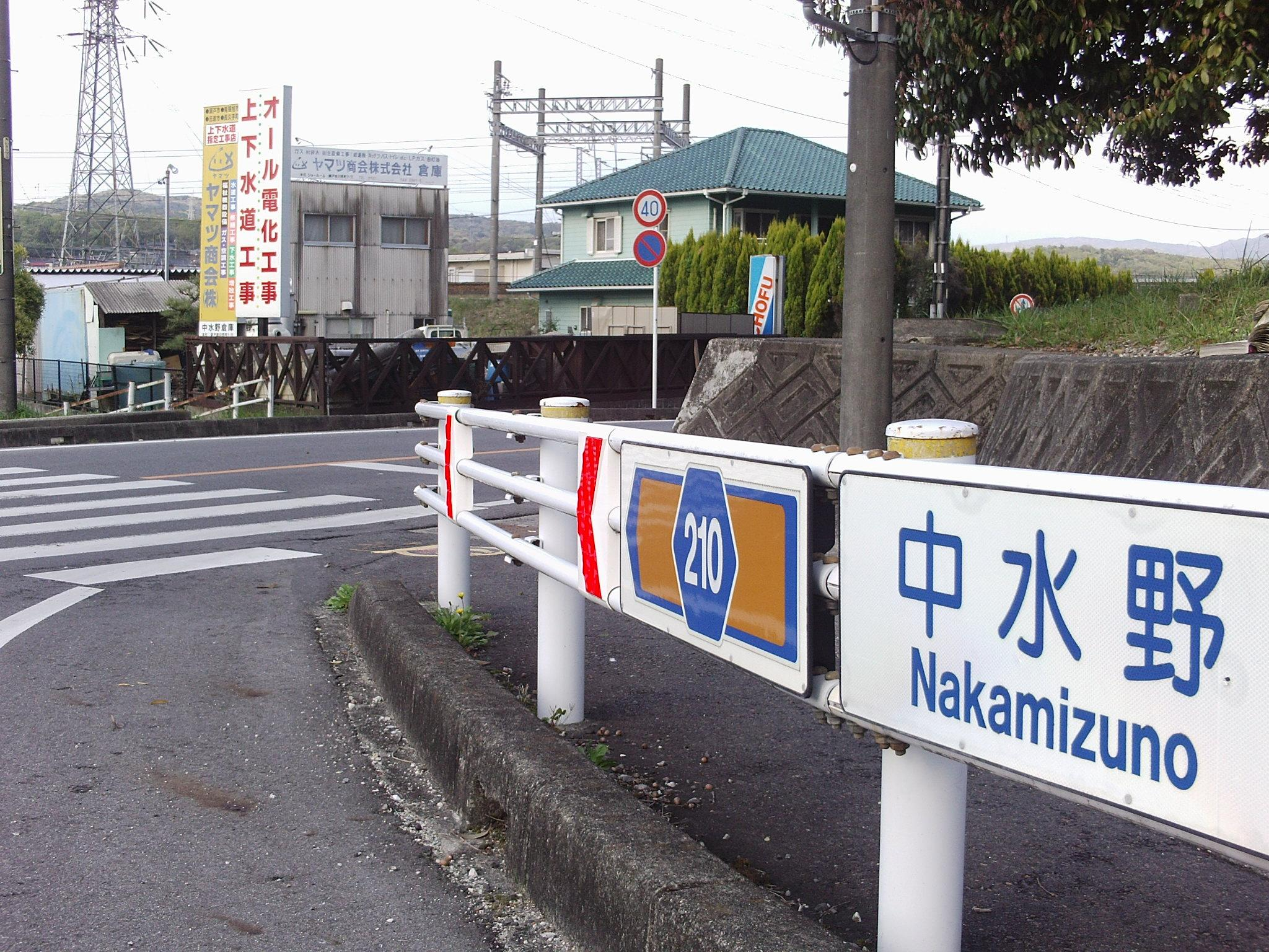 Aichi prefectural road No.210 in Nakamizunocho, Seto, Aichi.